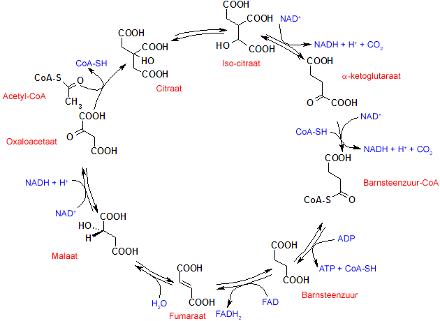 Citric acid cycle, Dutch text